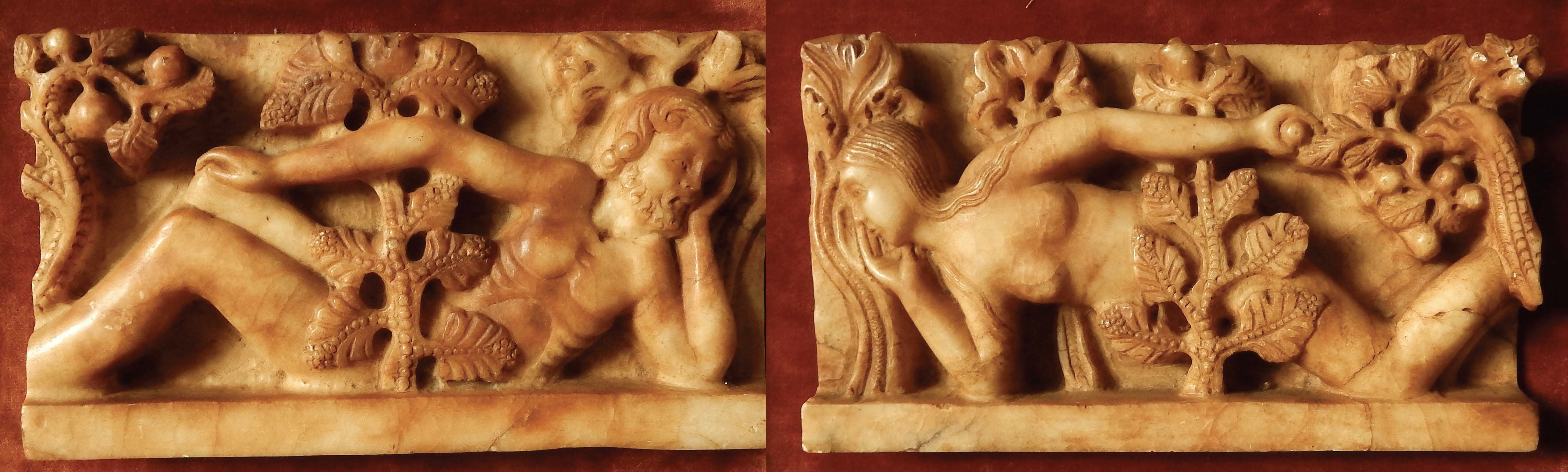 The Giselbertus Adam & Eve Alabasters in the collection of the Yuko Nii Foundation 12th-18th C. . These YNF alabasters of the 12th century Autun Cathedral Adam and Eve lintels may be the only surviving replica of this Giselbertus Adam masterpiece, which makes it significant. No other drawings or other copies of the Giselbertus Adam have been seen in our time in any library or museum. “Eve has a seductive quality that no other 12th century artist has equaled. If the other block (Adam) had survived, we would most certainly have had in it the completion of a great masterpiece” Introduction to Giselbertus Sculptor of Autun by T. S. R. Boase, President of Magdalen College, Oxford, The Orion Press, 1961